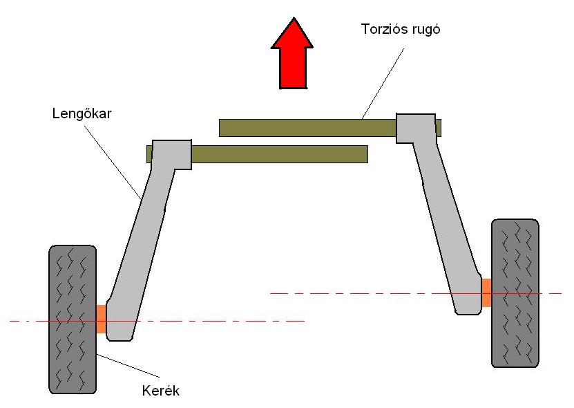 Renault R4 rear suspension